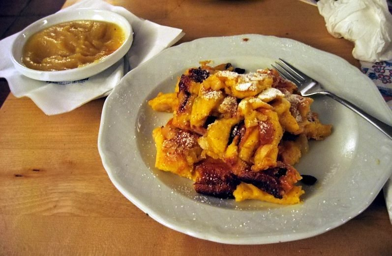 A plate of the Viennese dessert Kaiserschmarrn, with apple sauce in the small dish in the upper left corner. Taken at Weihenstephan Braustuberl, Bavaria, Germany.